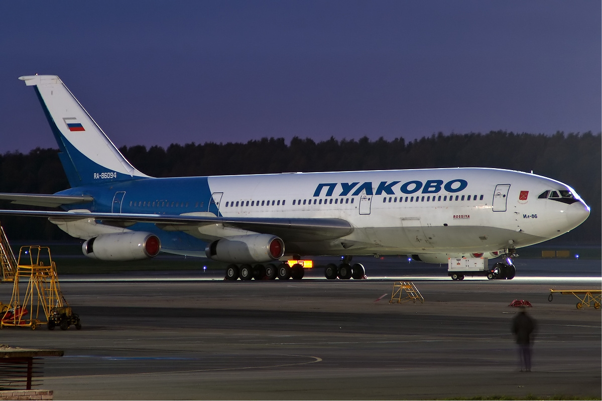 Pulkovo Airlines Ilyushin Il-86